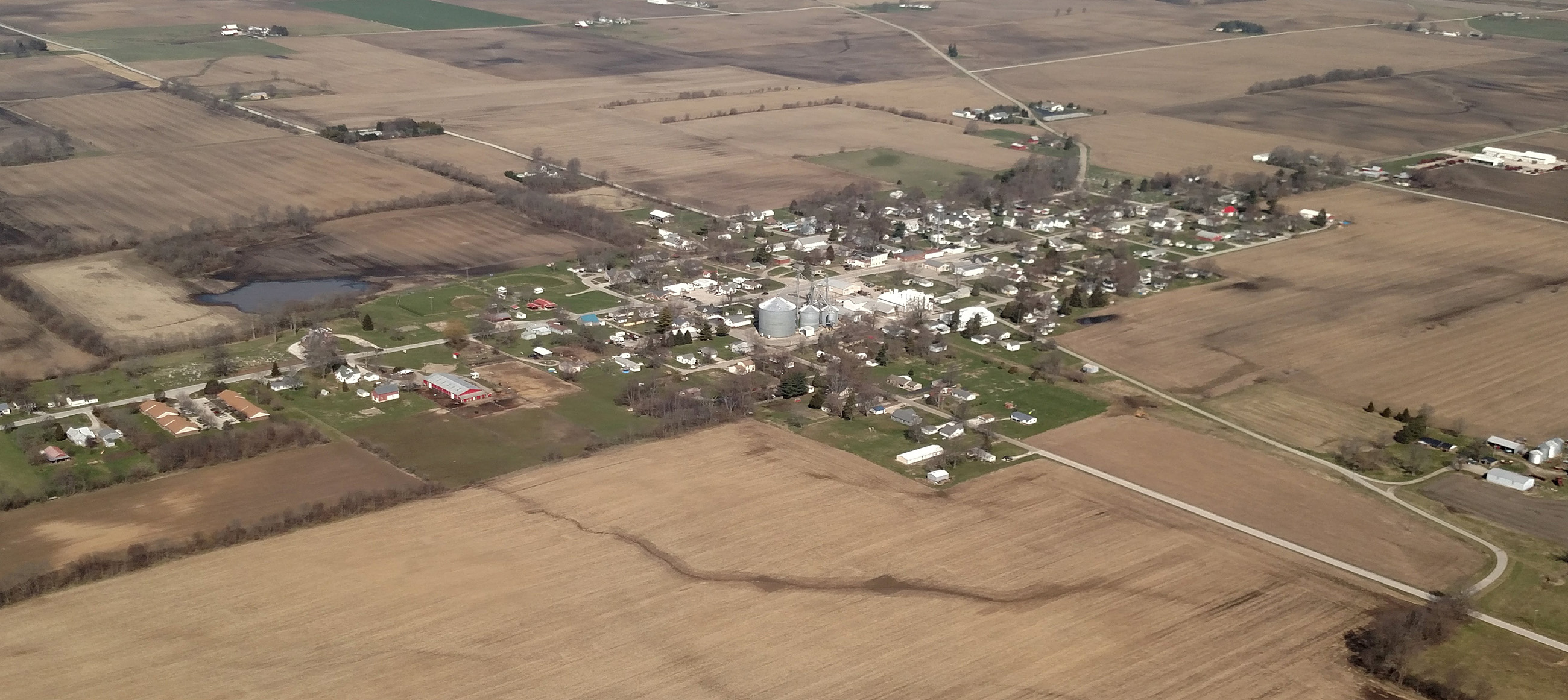 An aerial photograph of Wingate, Montgomery County, Indiana, United States, looking toward the northwest